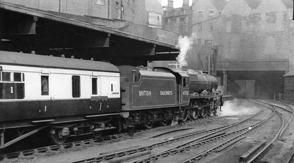 Euston express leaving New Street Station. View eastwards from the end of Platforms 4/5 in the ex-LNW part (not long shorn of its great glazed arch roof) of New Street Station to the New Street Tunnel, just six months after Nationalisation. LMS Rebuilt 'Patriot' 6P 4-6-0 No. 45531 'Sir Frederick Harrison' (newly painted in the experimental green livery applied by its new owners 'British Railways') heads a set of (?matching) carmine-&-cream coaches forming a Wolverhampton High Level to London Euston express. It was a resplendent sight in the grim surroundings.